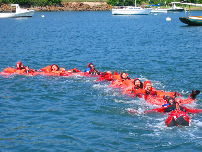 Fishery observer Training